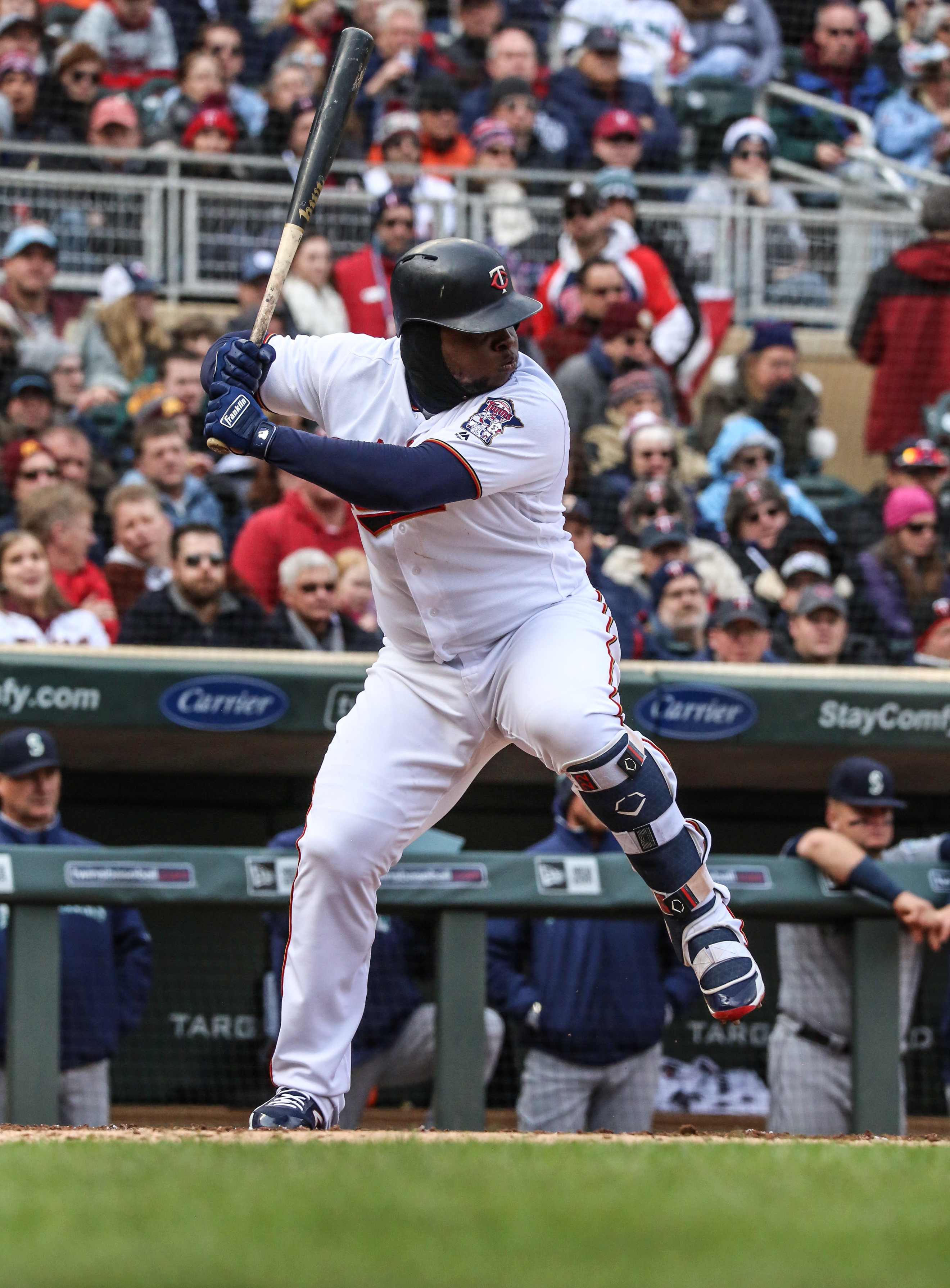 Miguel Sano - Minnesota Twins - Opening Day vs Seattle Mariners